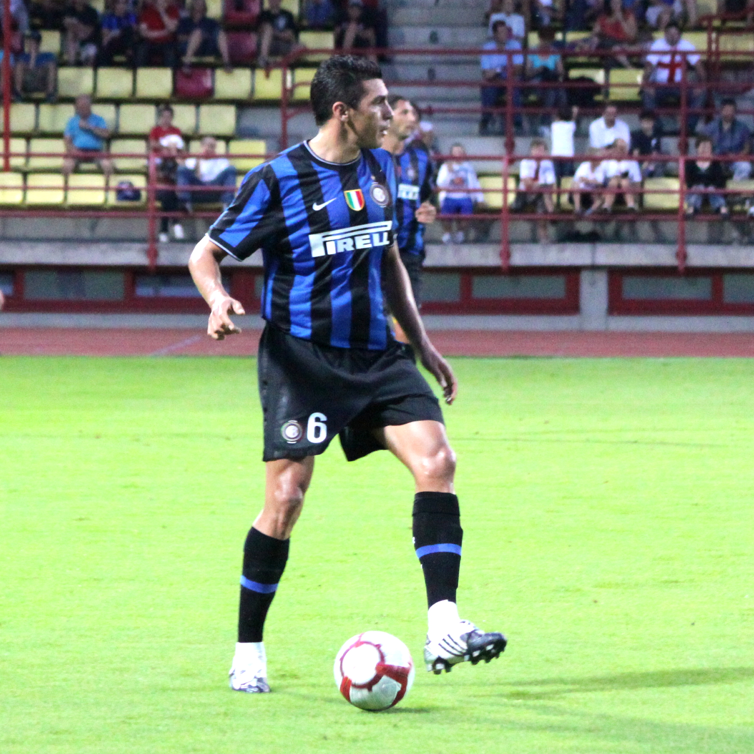 Lúcio - F.C. Internazionale Milano